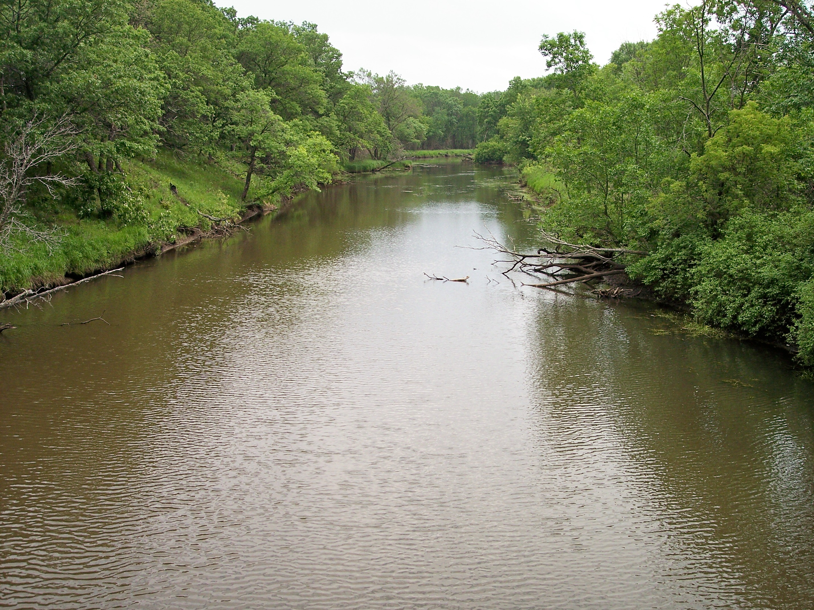 The St. Francis River in the Sherburne National Wildlife Refuge in Blue Hill Township, Minnesota, as viewed downstream from County Road 9.